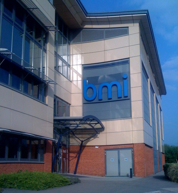 The Bmi training centre at 365 Stockley Close West Drayton, Greater London UB7 in the Stockley Close Industrial Estate near London Heathrow Airport.